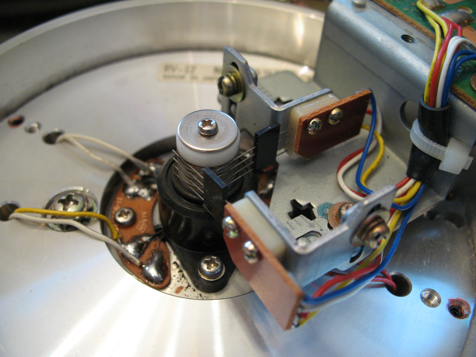 Sony_U-Matic_VO-5850_Video_head_-_slip-ring_flying_head_pickup_-_close-up_view